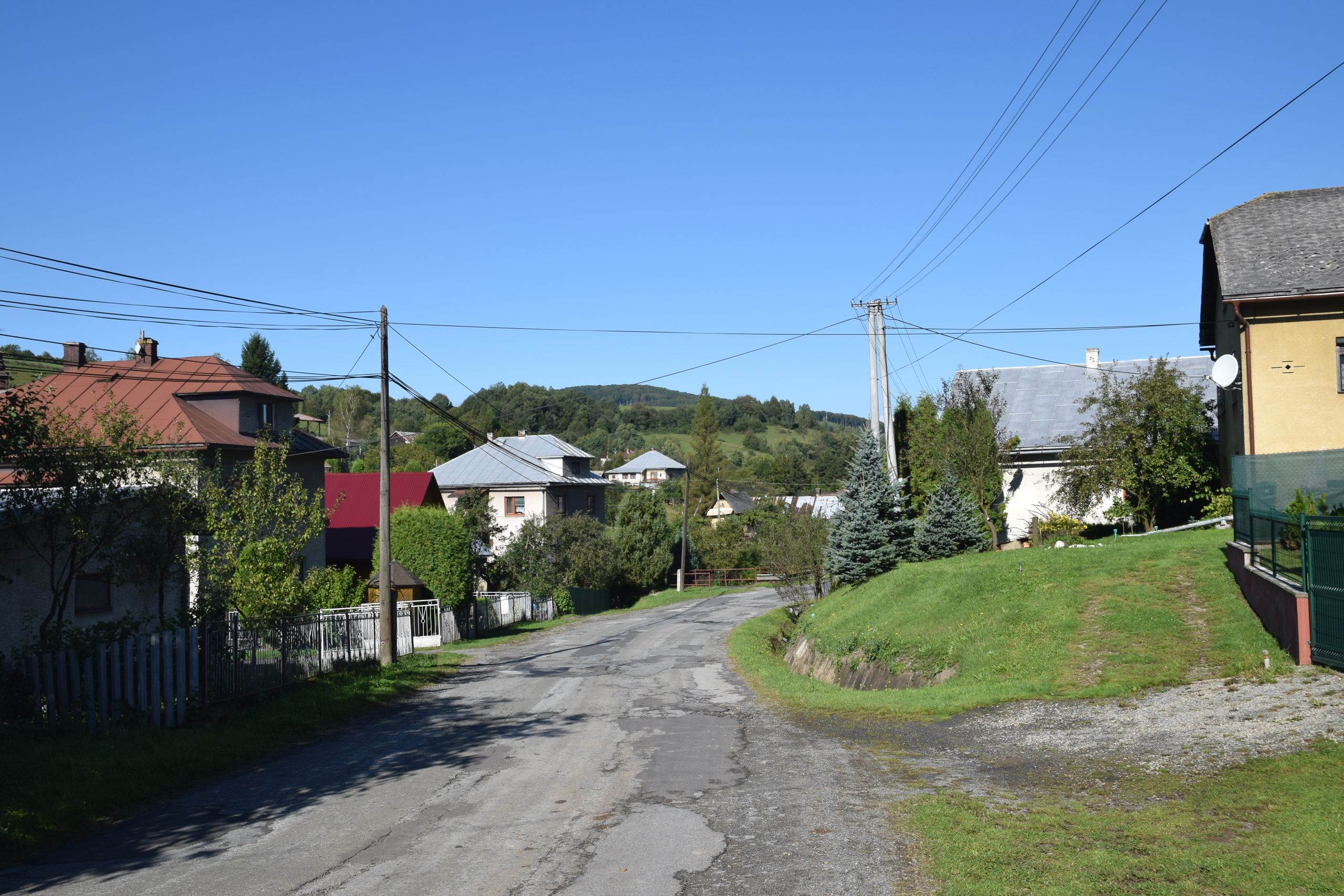 Krivé, main road